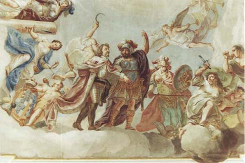 Ottavio Piccolomini. Ceiling of the Nachod Castle